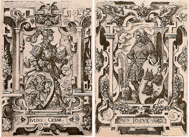 Engravings of Julius Caesar and Joshua, from a series of the Nine Worthies.